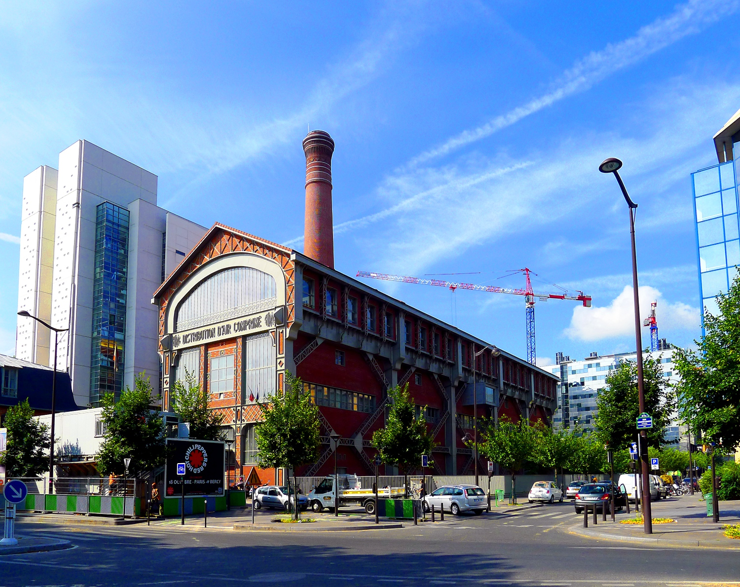 Quai Panhard-et-Levassor - Paris